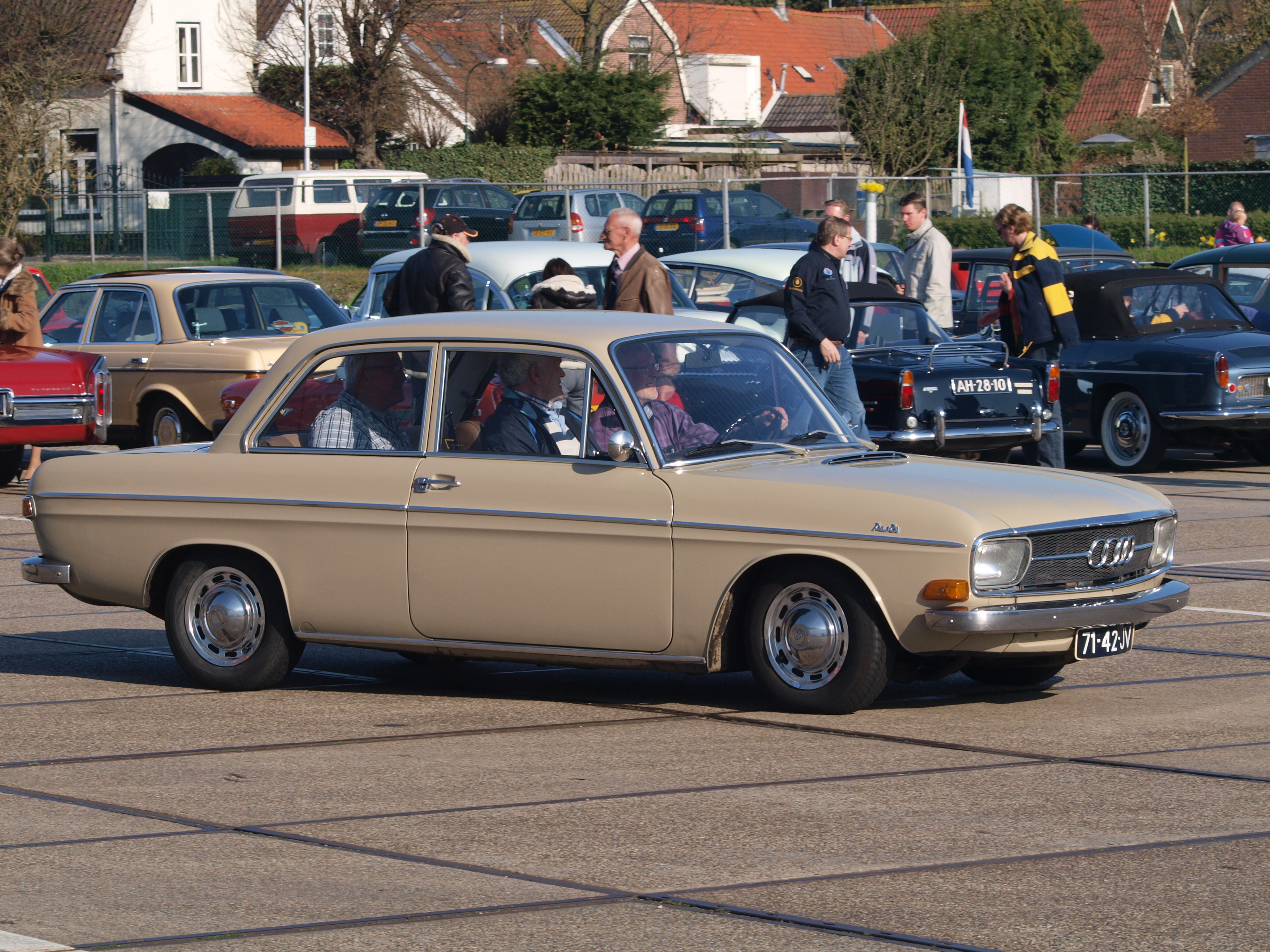 Photographed at the Hyacintenrit 2010, The Netherlands.